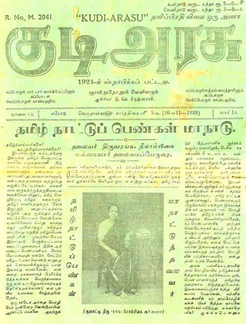 Frontpage of the magazine Kudiyarasu (dated 20 November 1938). The magazine was run by Periyar E. V. Ramasamy in the Madras Presidency, British India. This issue reports about the Tamil Nadu women's conference to be held on 13 November 1938. The conference was convened to showcase women's support to the Anti-Hindi agitation of 1937–40 This particular scan is taken from Pollachi Nasan's collection